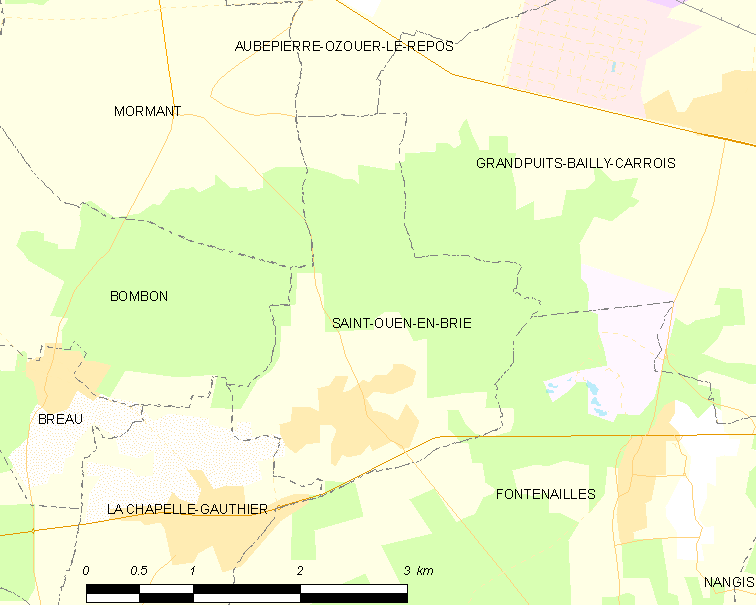 Map of French municipality Saint-Ouen-en-Brie